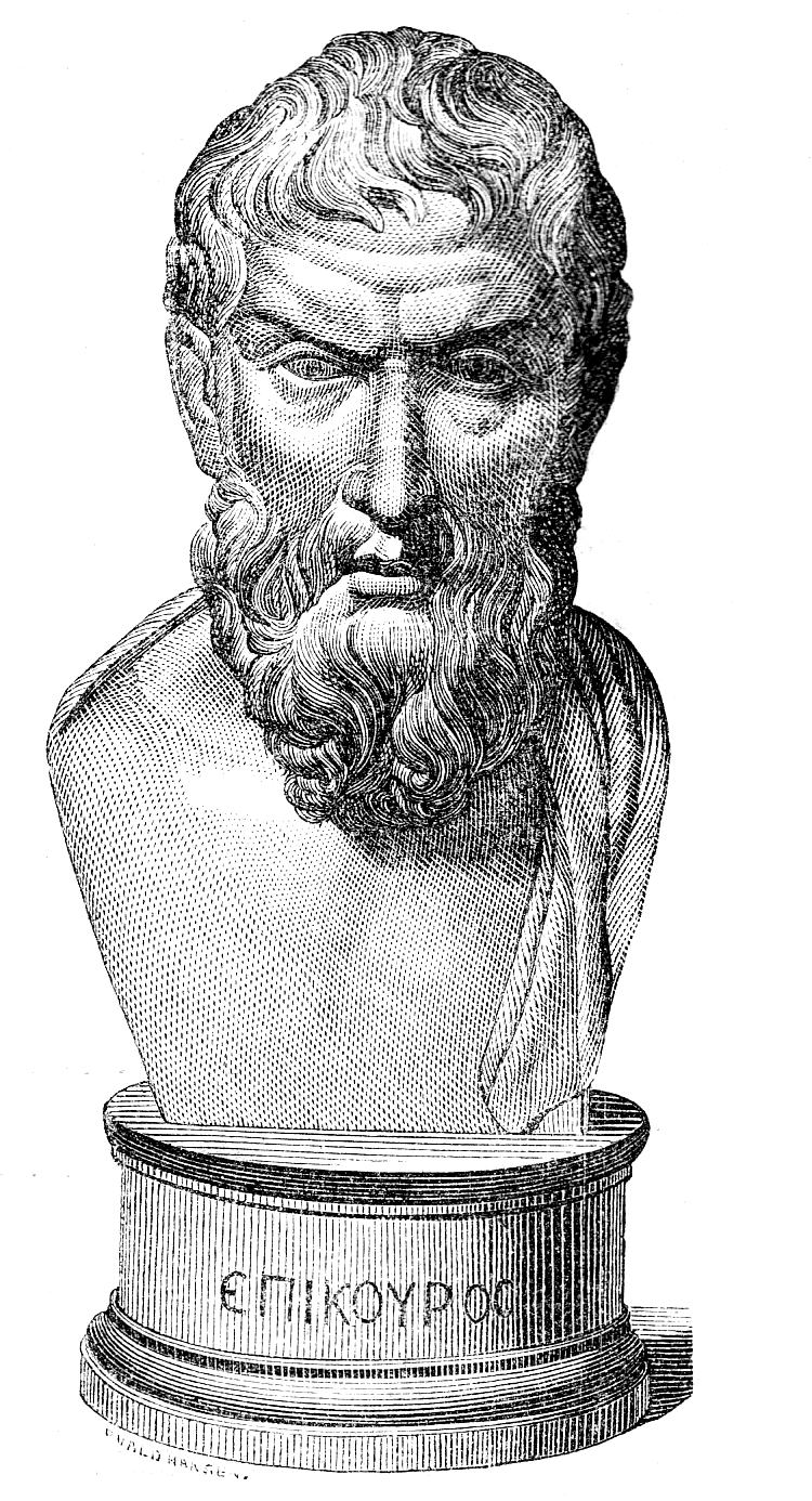 Illustration from Illustrerad verldshistoria by E. Wallis, volume I. "Epicurus."